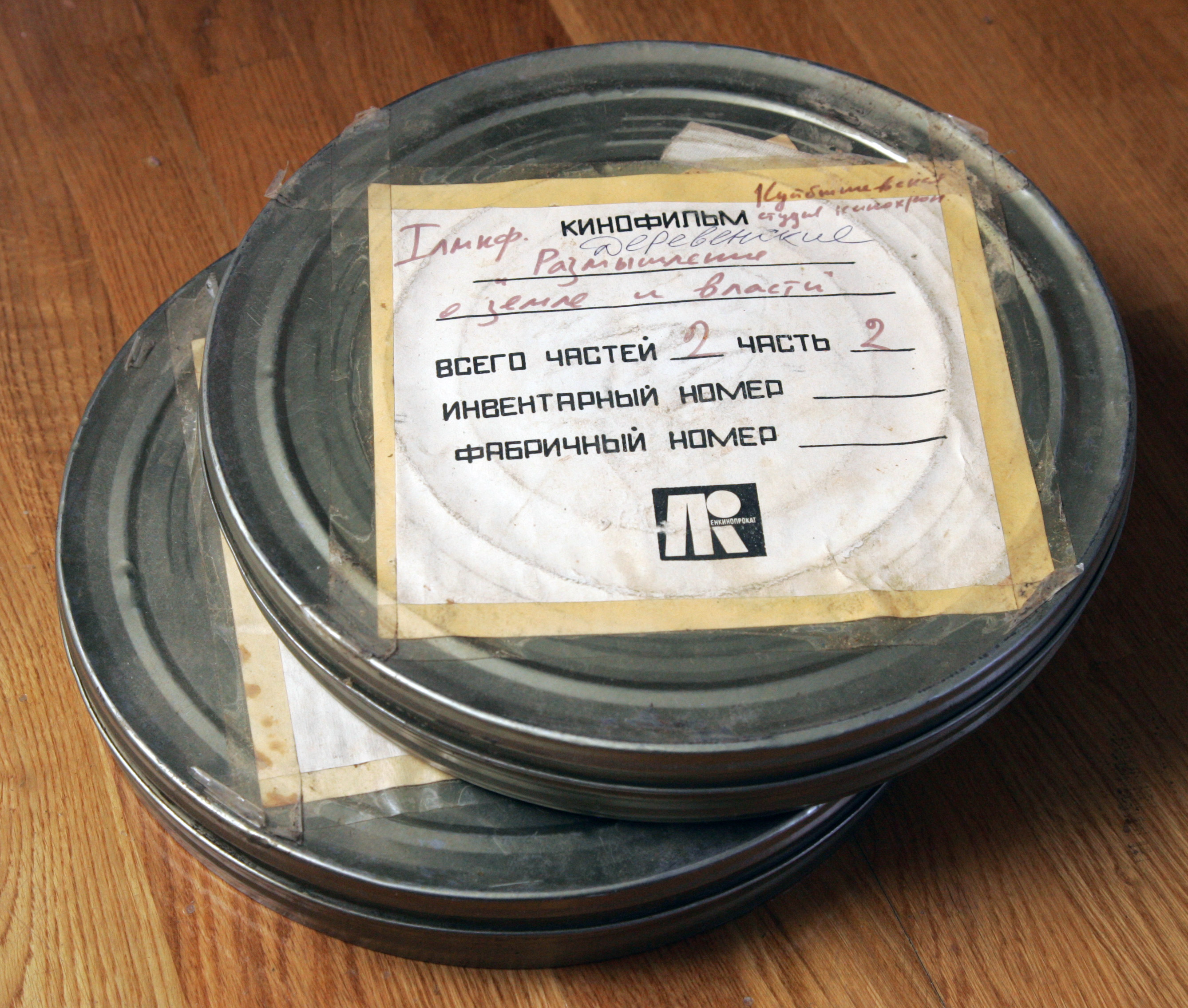 Two 1000 feet 35-mm film reels in boxes.